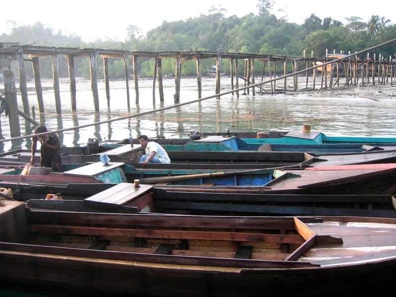 By Dheera Venkatraman. I took this photo on a trip through the region in summer 2004. Original